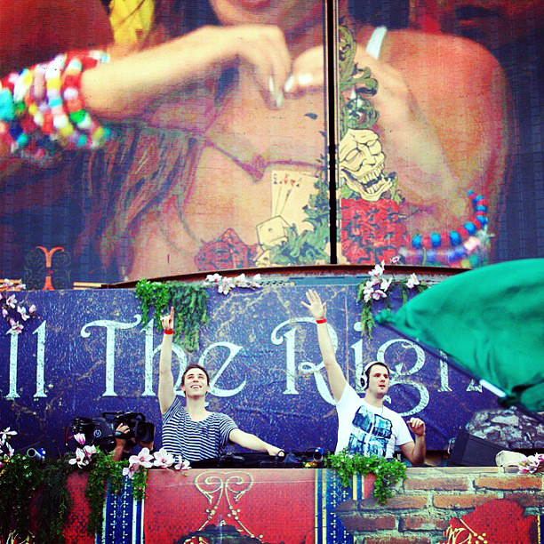 W&W - Tomorrowworld 2013 photo by mixtribe